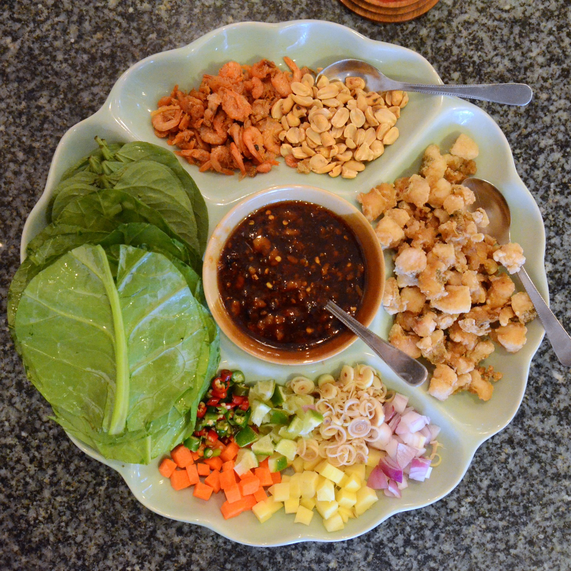 Miang pla (Thai script: เมี่ยงปลา) literally means "wrapped fish". Here the leaves of the chaphlu (Thai script: ชะพลู, "Piper sarmentosum") and khana (Thai script: คะน้า, "Chinese broccoli") are used as wraps. The other ingredients are (clockwise from the top): dried shrimp, peanuts, fried fish, shallots, lemon grass, ginger, lime, carrot and chillies. The sauce shown in the middle is made from taochiao (fermented soy bean paste), palm sugar and crushed deep-fried pork skin but other accompanying sauces can be used as well. The ingredients, together with the sauce, are put inside a leaf, Which is then wrapped. This dish is often eaten as an appetizer.